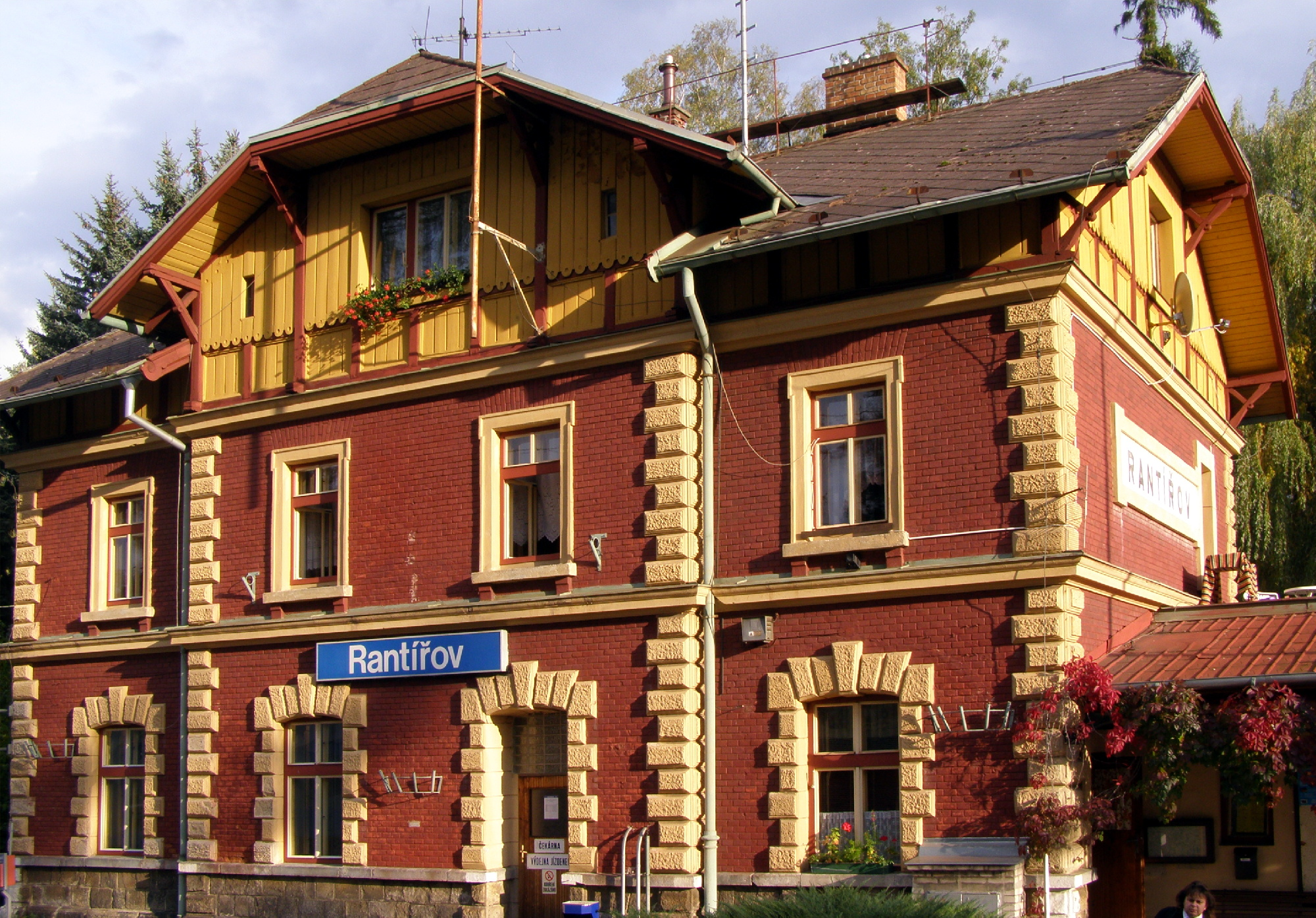 Rantířov. Railway station „Rantířov“